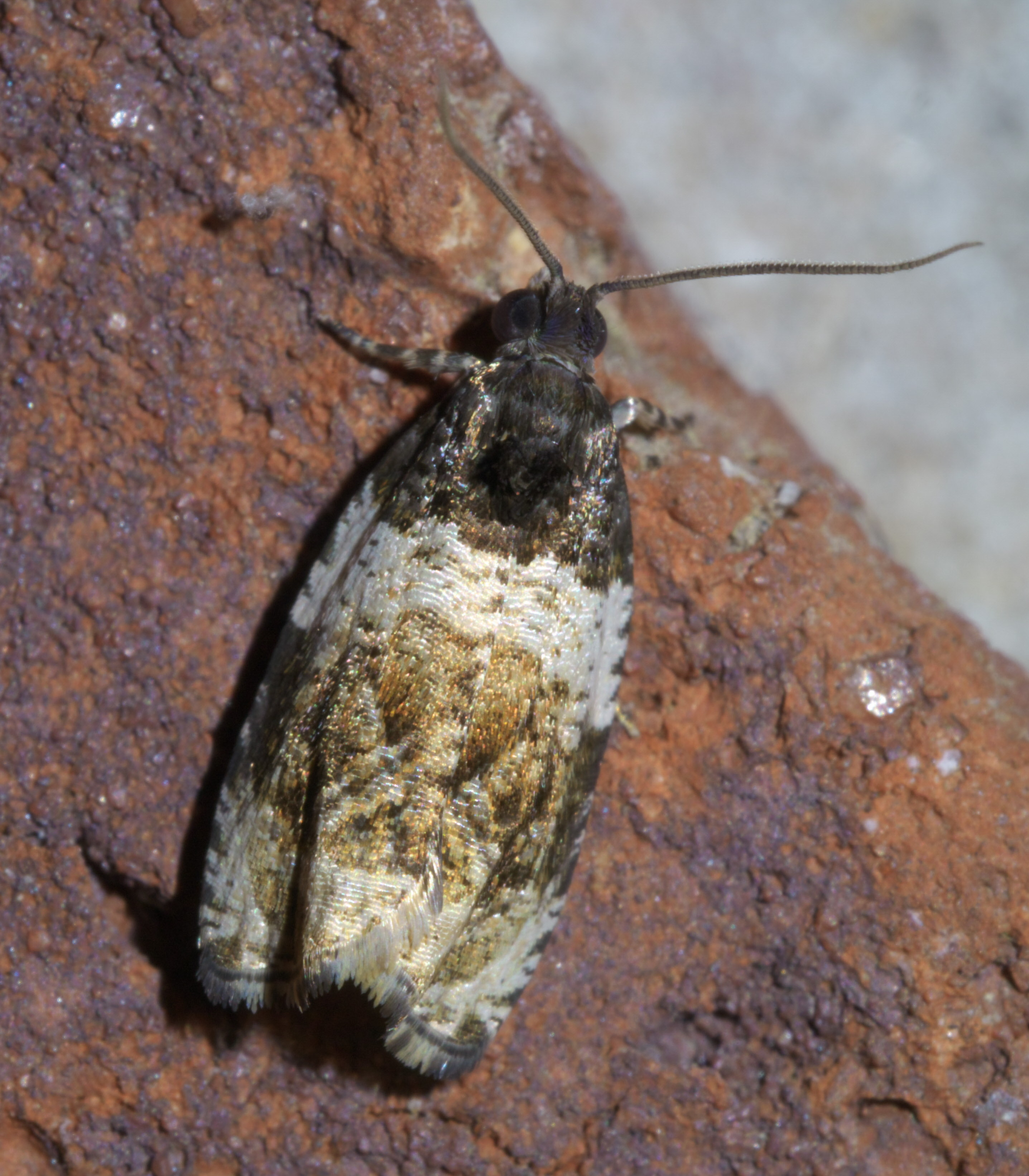 Olethreutes fasciatana, banded olethreutes, Size: 8.2 mm, ID Confidence: 88